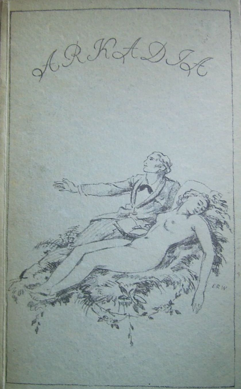 The short story "The Judgment" by Franz Kafka was first published in the almanac Arkadia (Leipzig, 1913, pp. 53ff).